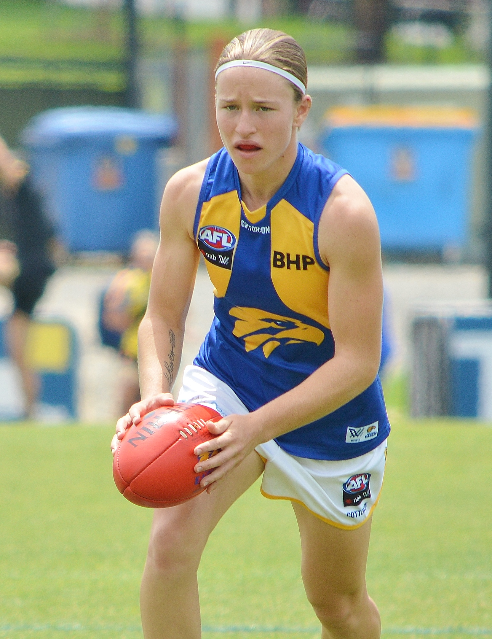 Mikayla Bowen with Richmond during a pre-season AFL Women's match against West Coast at Punt Road Oval in January 2020.